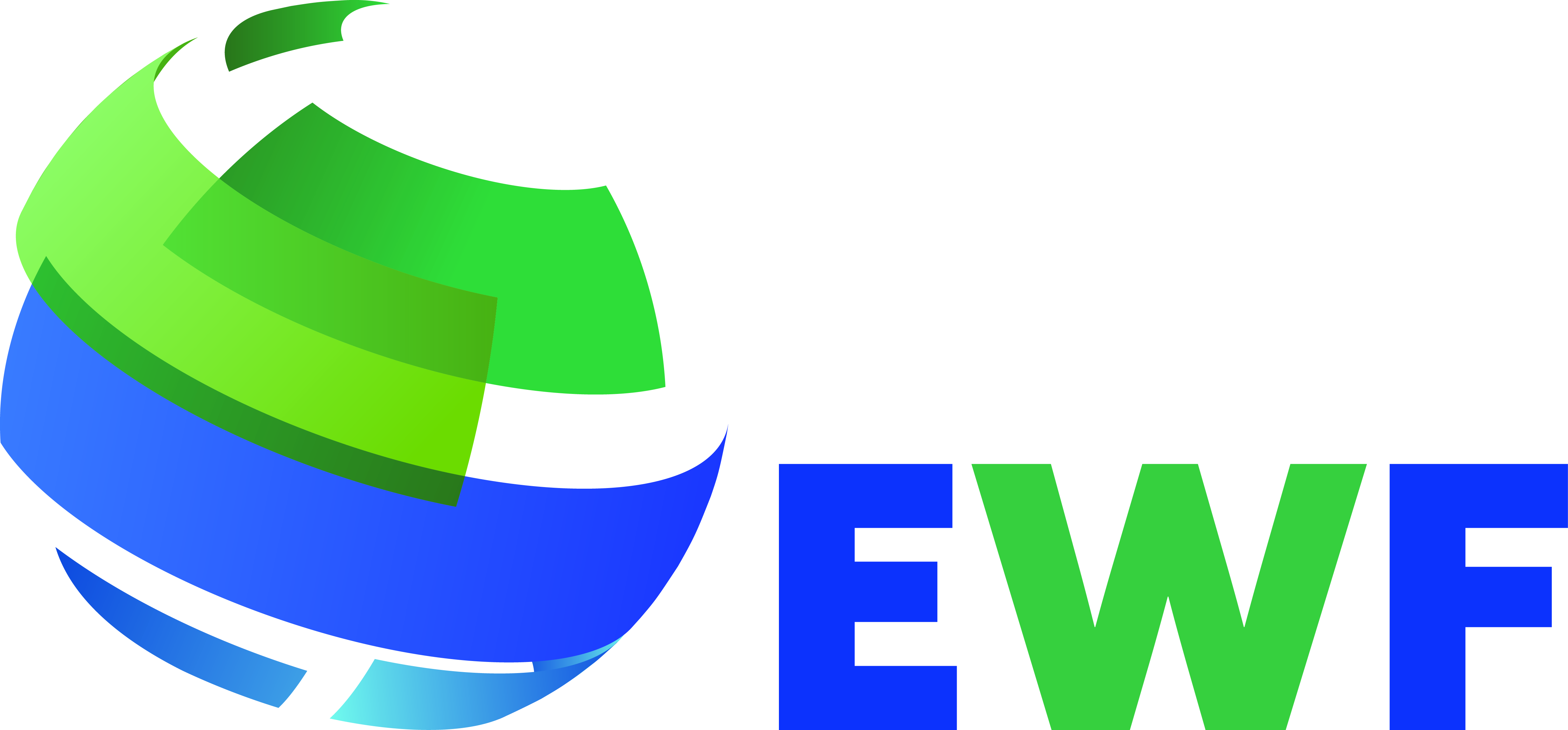 EWF LOGO